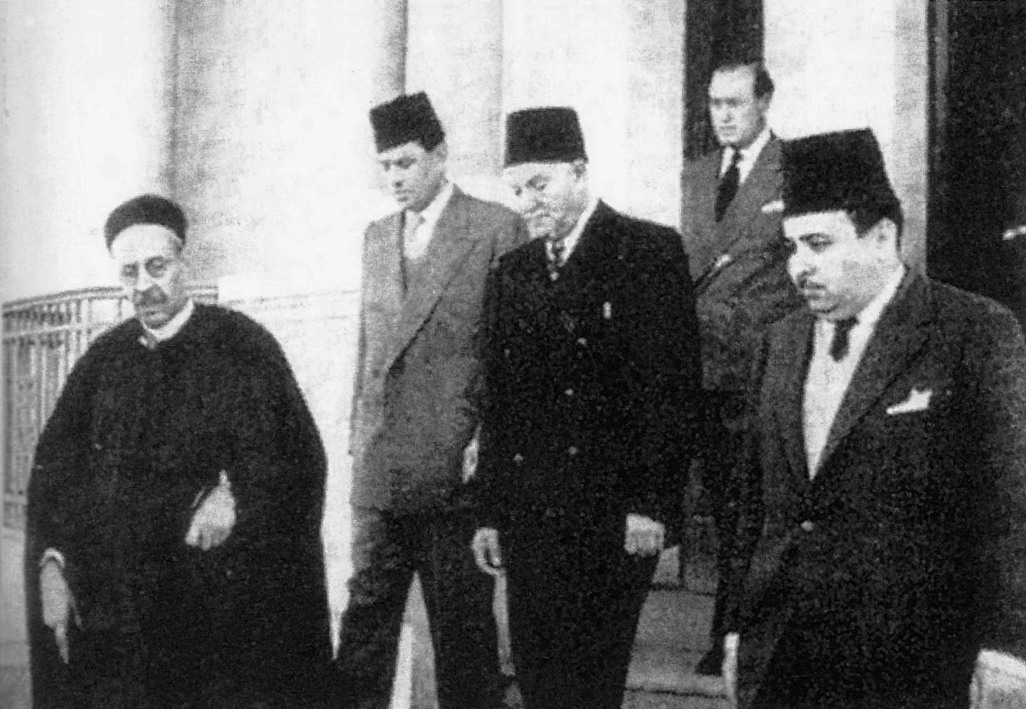 Emir Idris es Senussi of Cyrenaica (left), and behind him (from left) Hussein Maziq, Mohammed Sakizli, and Mustafa Ben Halim. An unknown man is in the background. Benghazi was the capital of Cyrenaica during the Allied occupation (1943–1951).